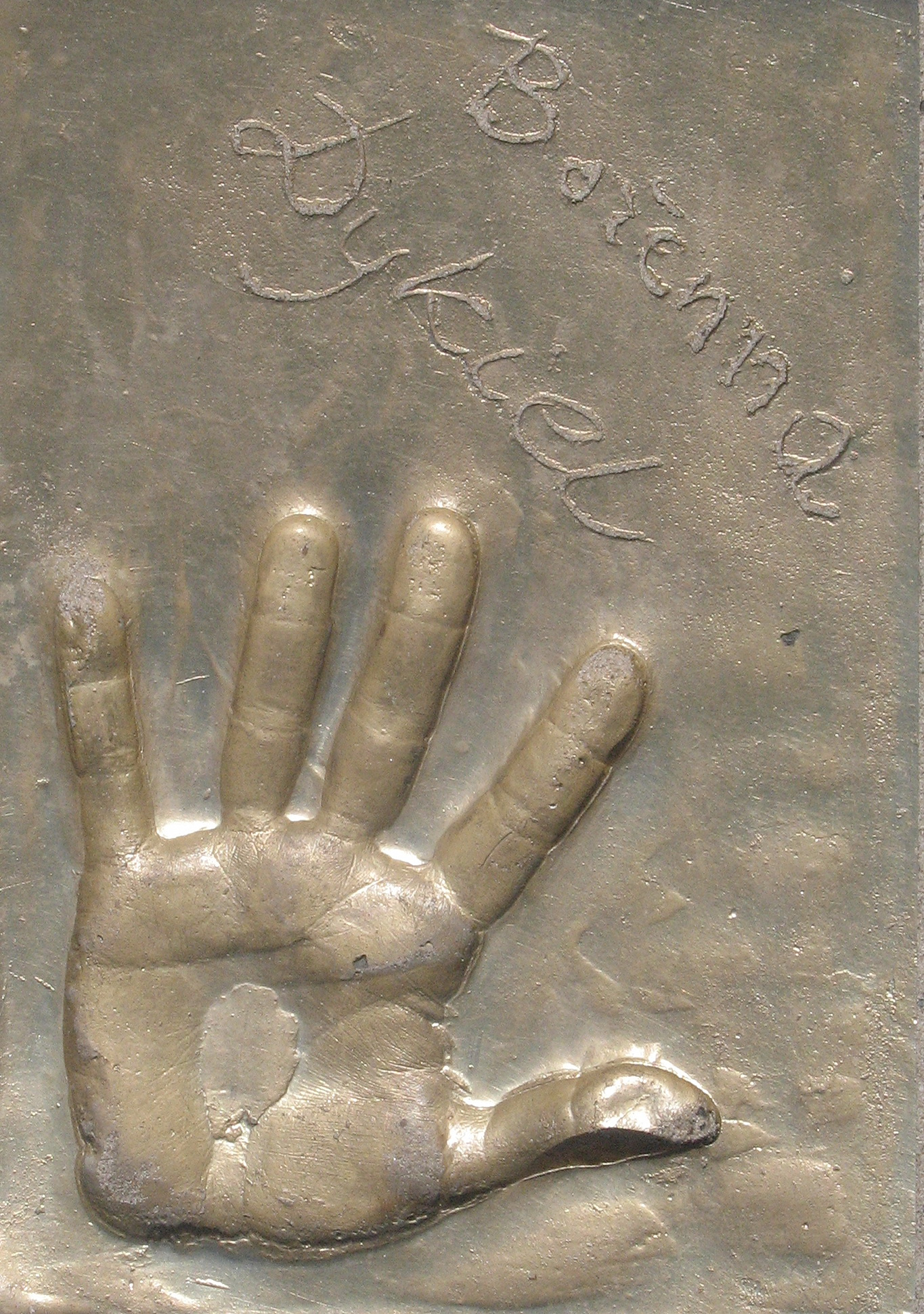 Bożena Dykiel - handprint and signature in Międzyzdroje